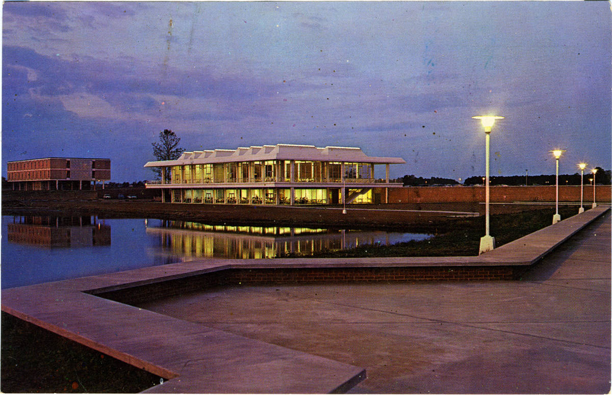 Buildings and the lake at St. Andrews University in Laurinburg, North Carolina, United States. The campus is listed on the National Register of Historic Places as a historic district.